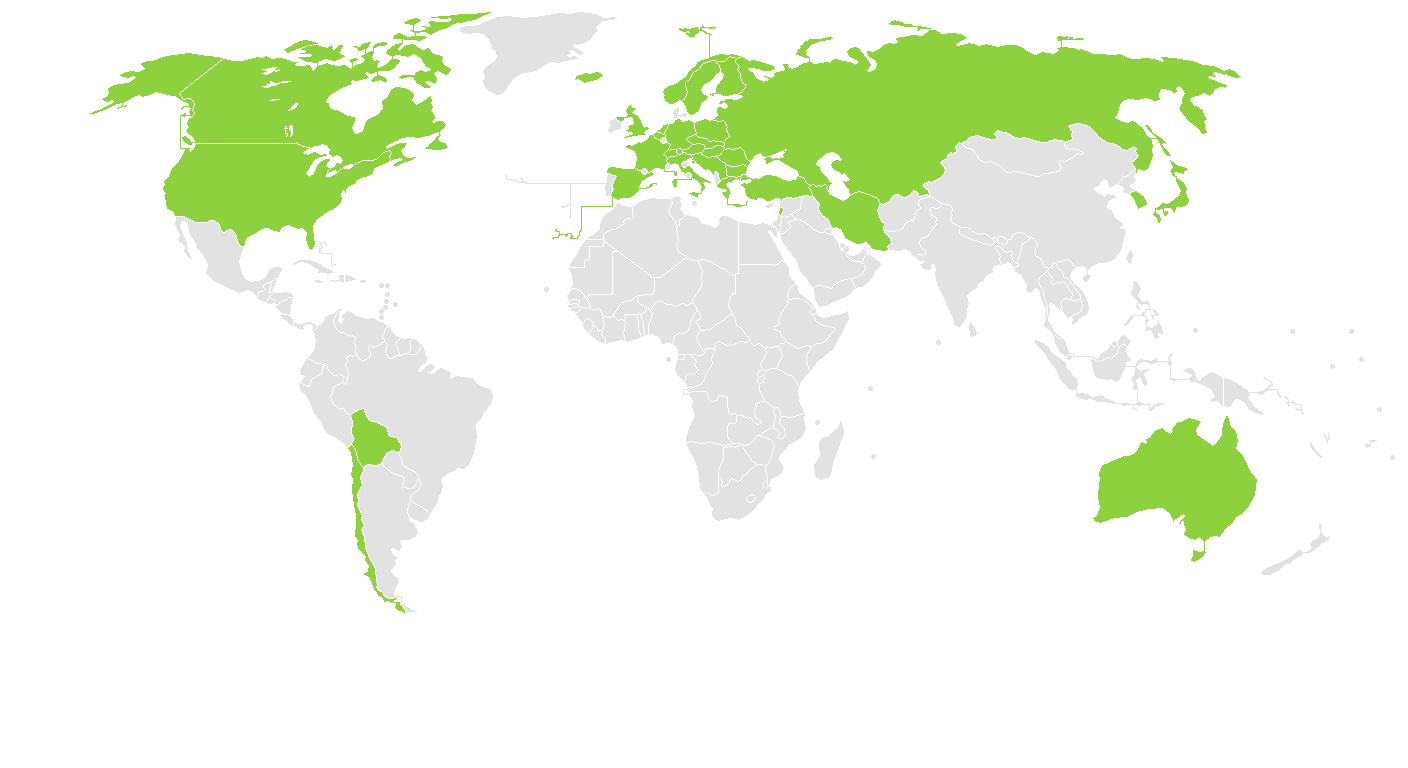 Participant nations at the 1956 Winter Olympics